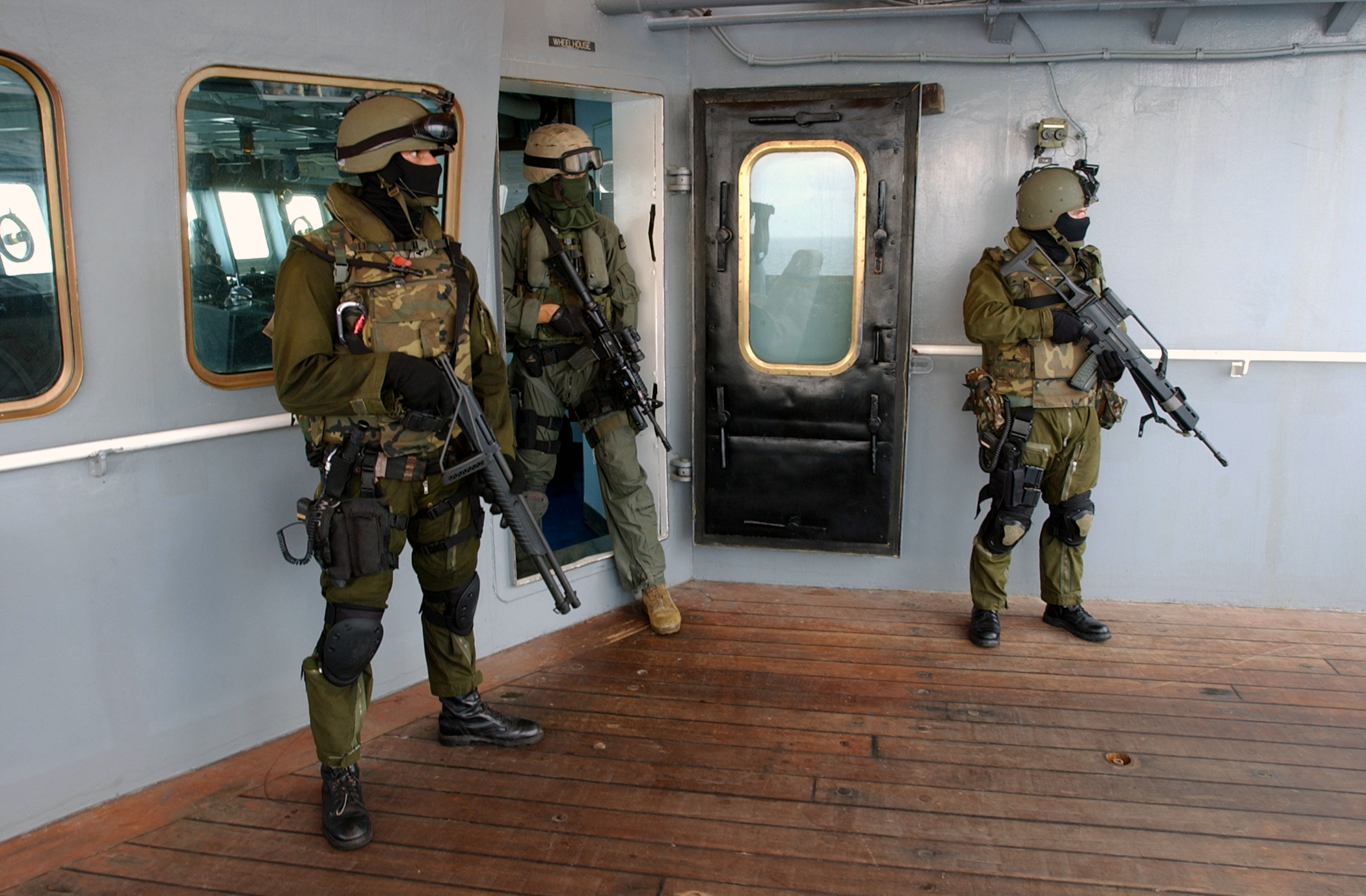 Arabian Sea (Jan. 17, 2004) -- Spanish Special Operations Forces (SOF) soldiers partner with a U.S. Marine assigned to the 13th Marine Expeditionary Unit (13th MEU) after searching the Military Sealift Command (MSC) combat stores ship USNS Saturn (T-AFS 10) during a mock non-compliant boarding as part of exercise Sea Saber 2004. The 5th Proliferation Security Initiative (PSI) exercise of its kind, Sea Saber focuses on the interdiction of a maritime shipment of weapons of mass destruction and related equipment and materials on the high seas. U.S. Navy photo by Photographer's Mate 2nd Class Jeffrey Lehrberg. (RELEASED)